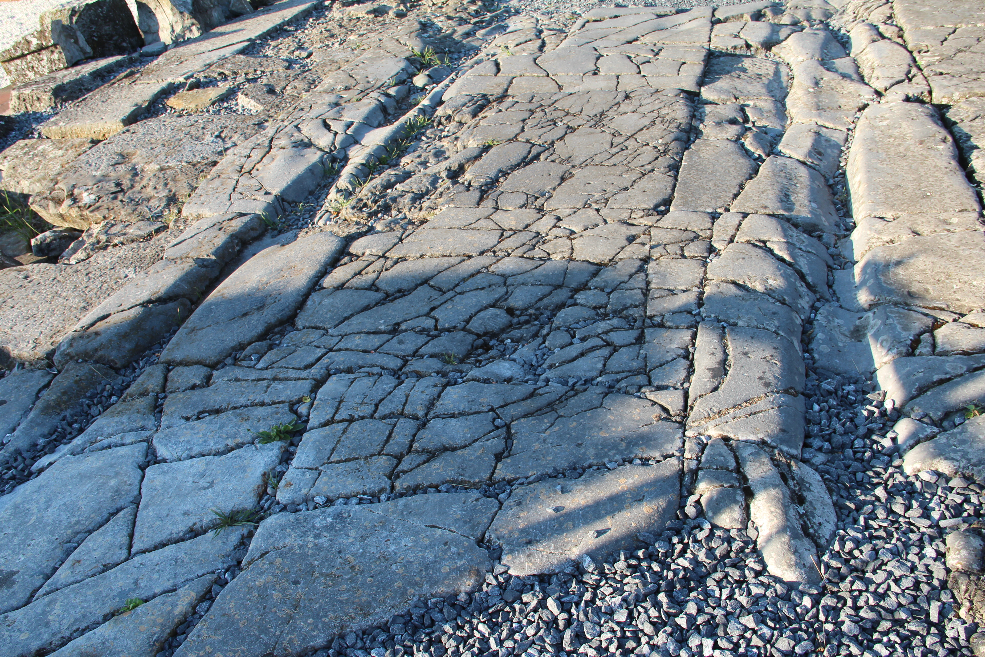 Bavay (Nord, France), deep wheel ruts made by the charroi of the time in the Roman road Bavay-Cologne.